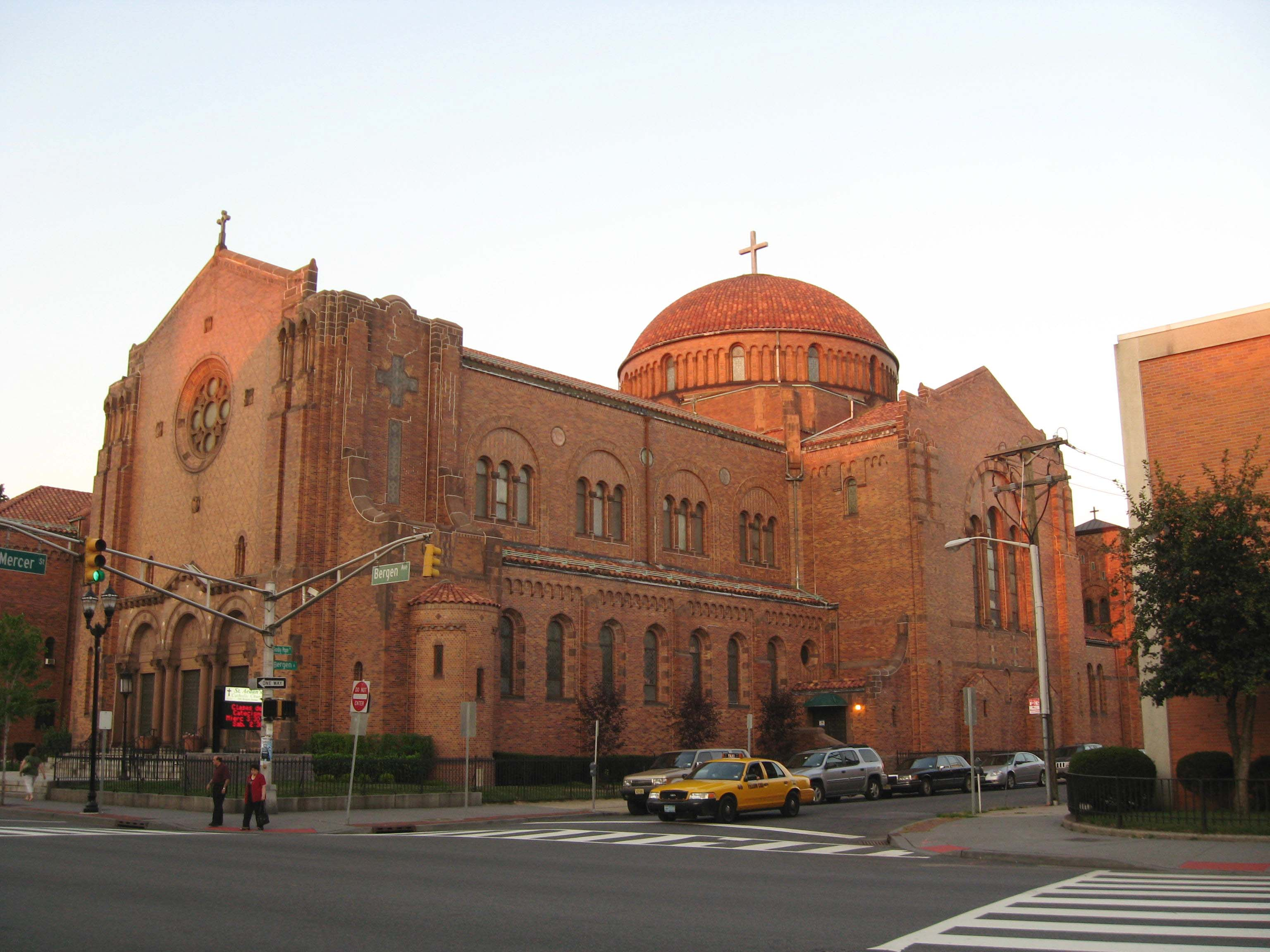 Looking northeast across Mercer Street and Bergen Avenue at St Aedan's RC Church south of Bergen Square in Jersey City, New Jersey near dusk